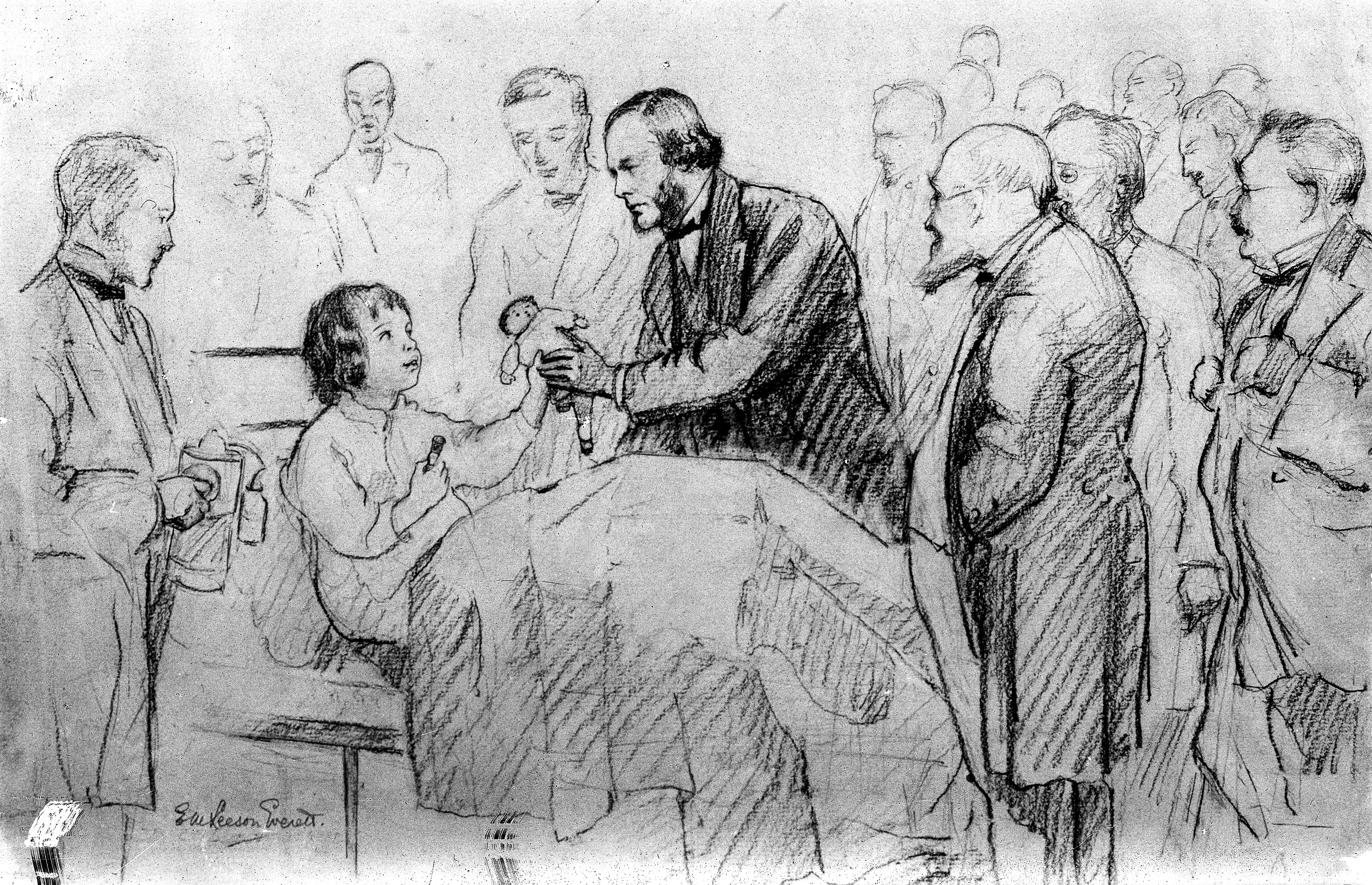 Lister at the bed-side of a sick child. Drawing by Leeson Everette. Wellcome Images Keywords: Joseph Lister